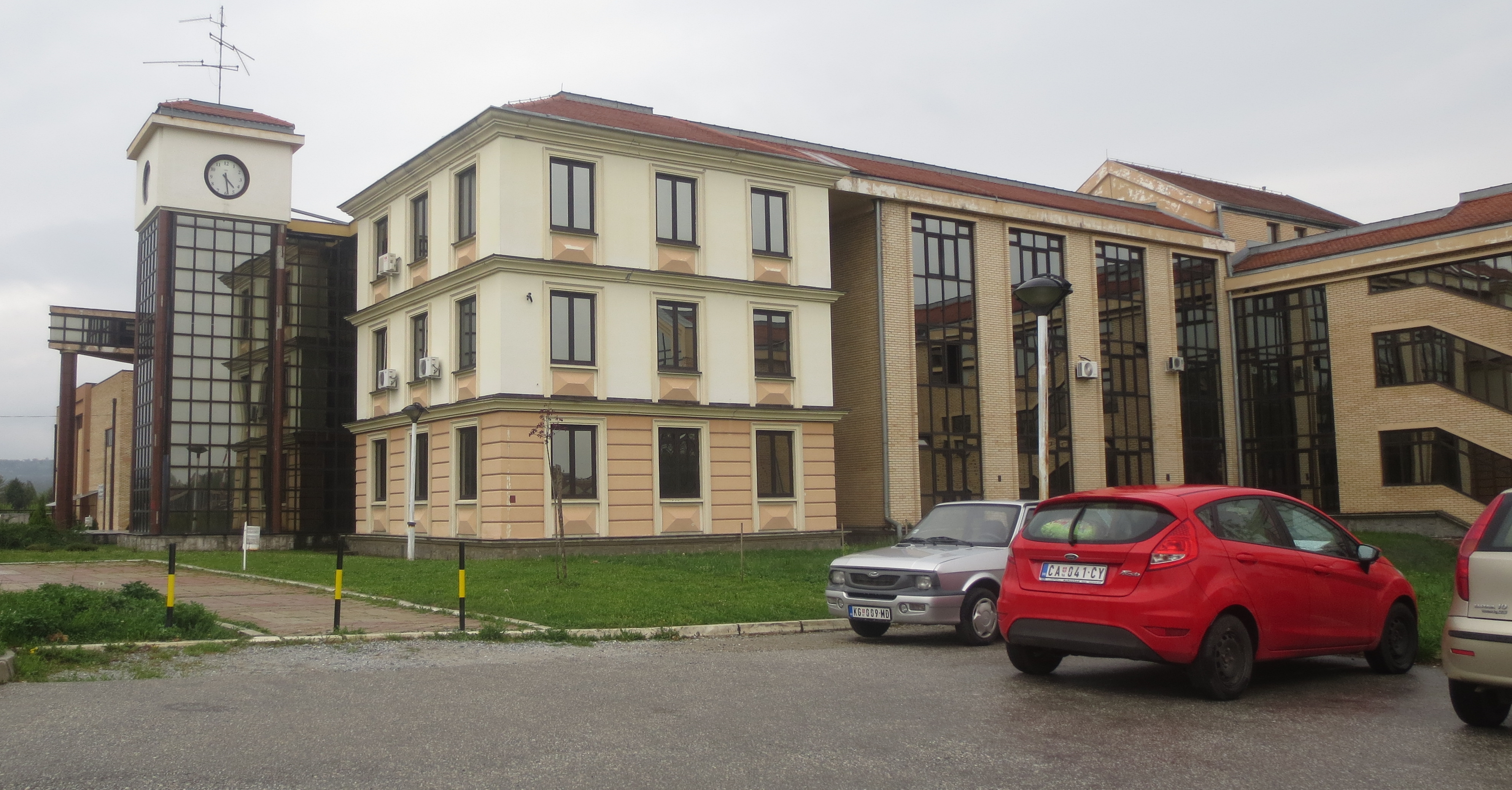 The University of Kragujevac, Chancellery and Rector's Offices, central Serbia.